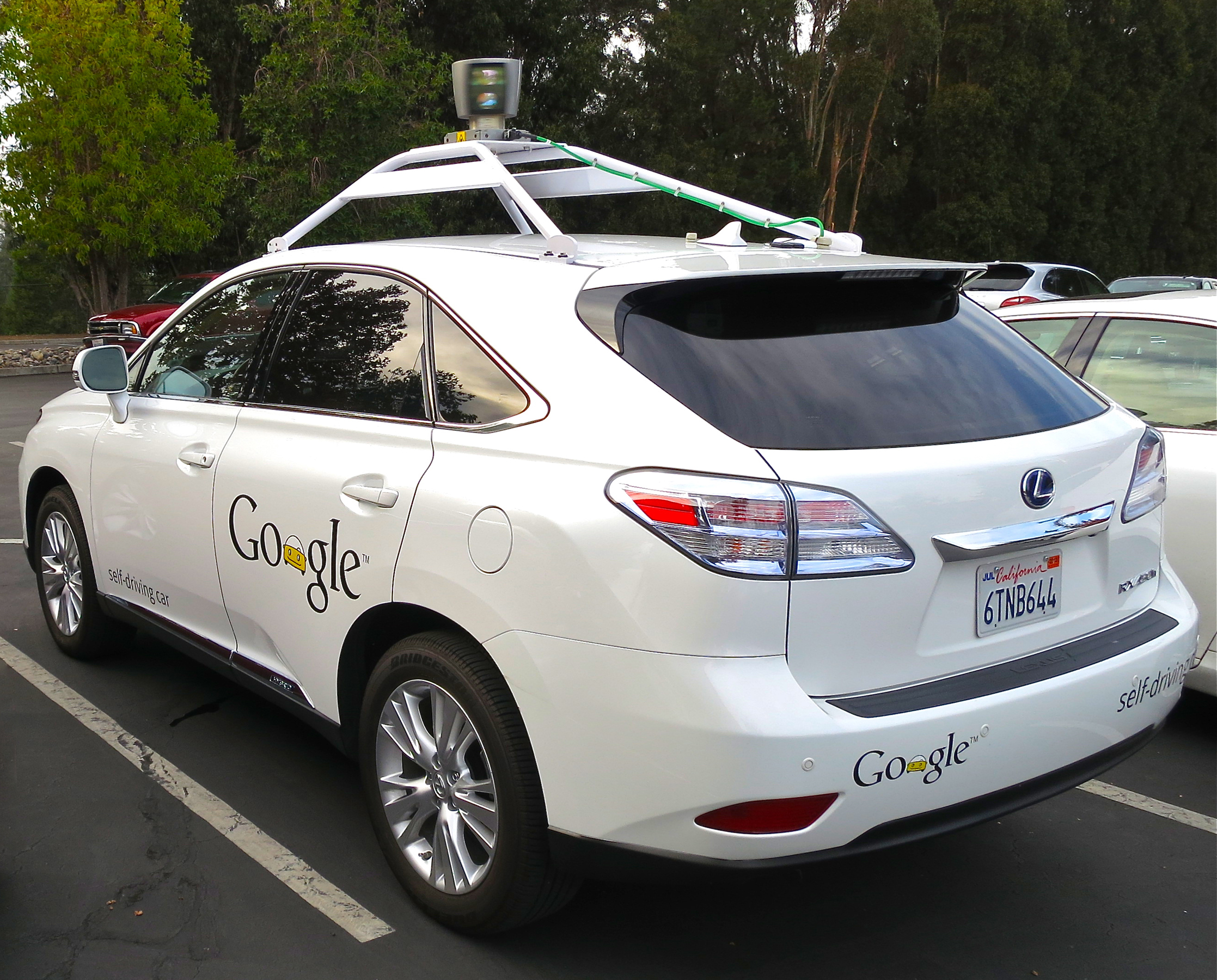 Lexus RX450h retrofitted by Google for its driverless car fleet. At the left side is parked a Tesla Model S electric car.